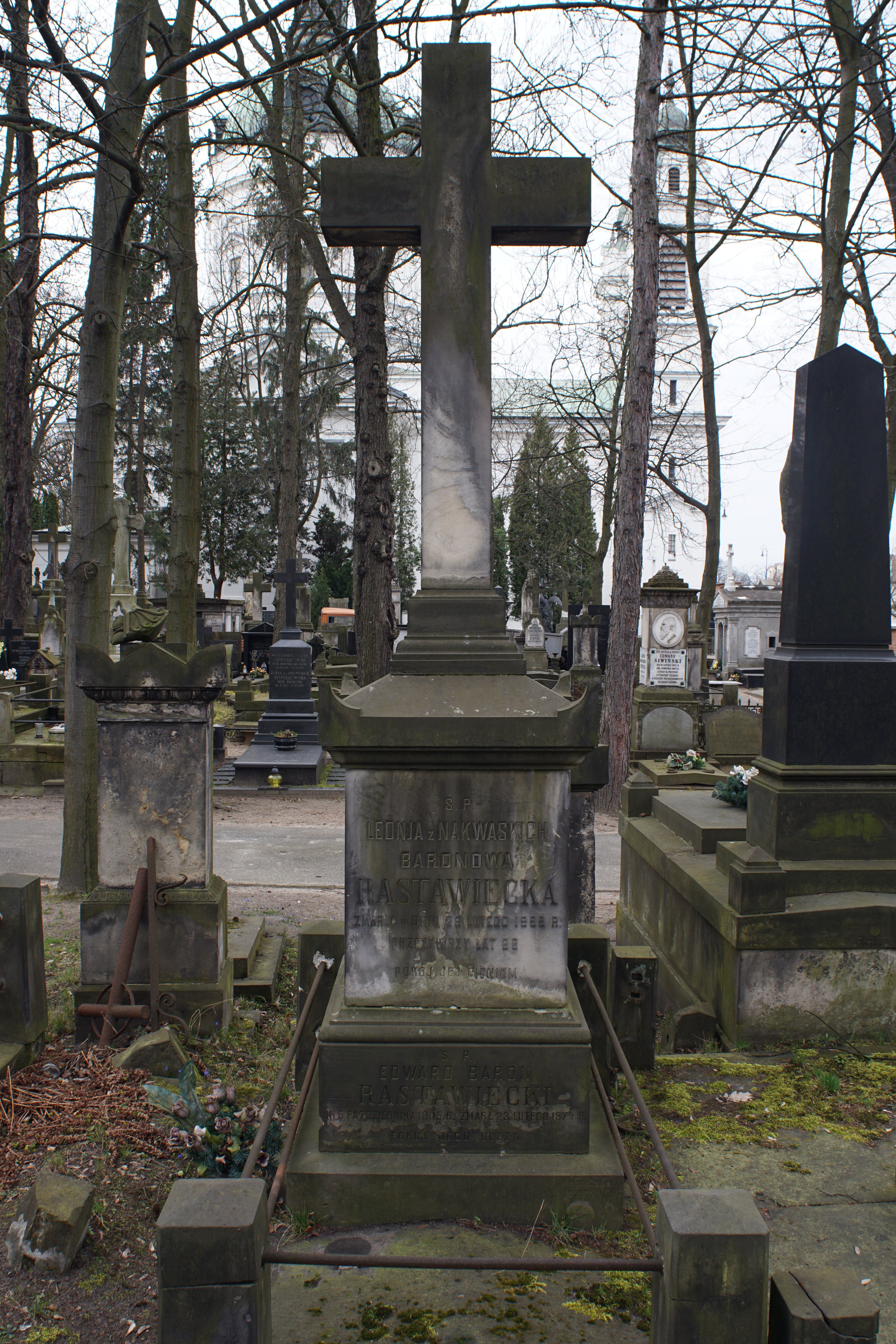 The grave of Edward Rastawiecki at the Powązki Cemetery (section 3, row 5, grave 4)